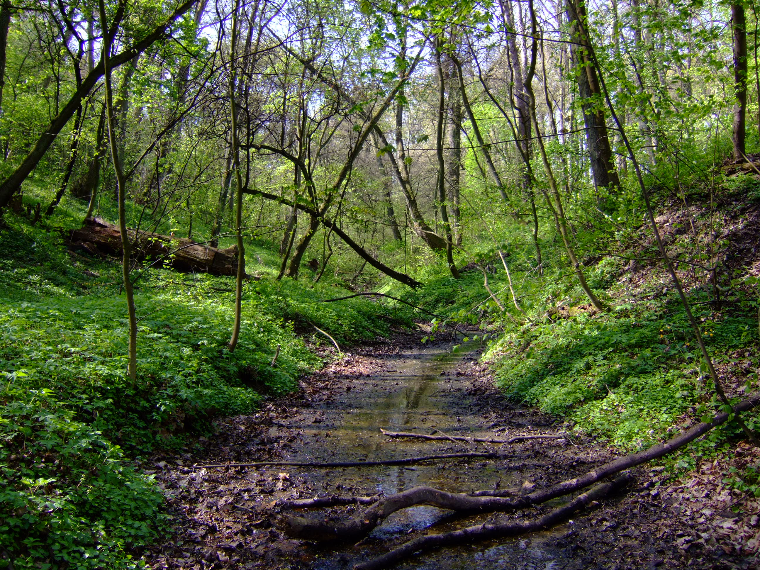 Lisiny Bodzechowskie Nature Reserve, Bodzechów, Poland, 2007 yr. Aparat/Camera: Fuji FinePix E900